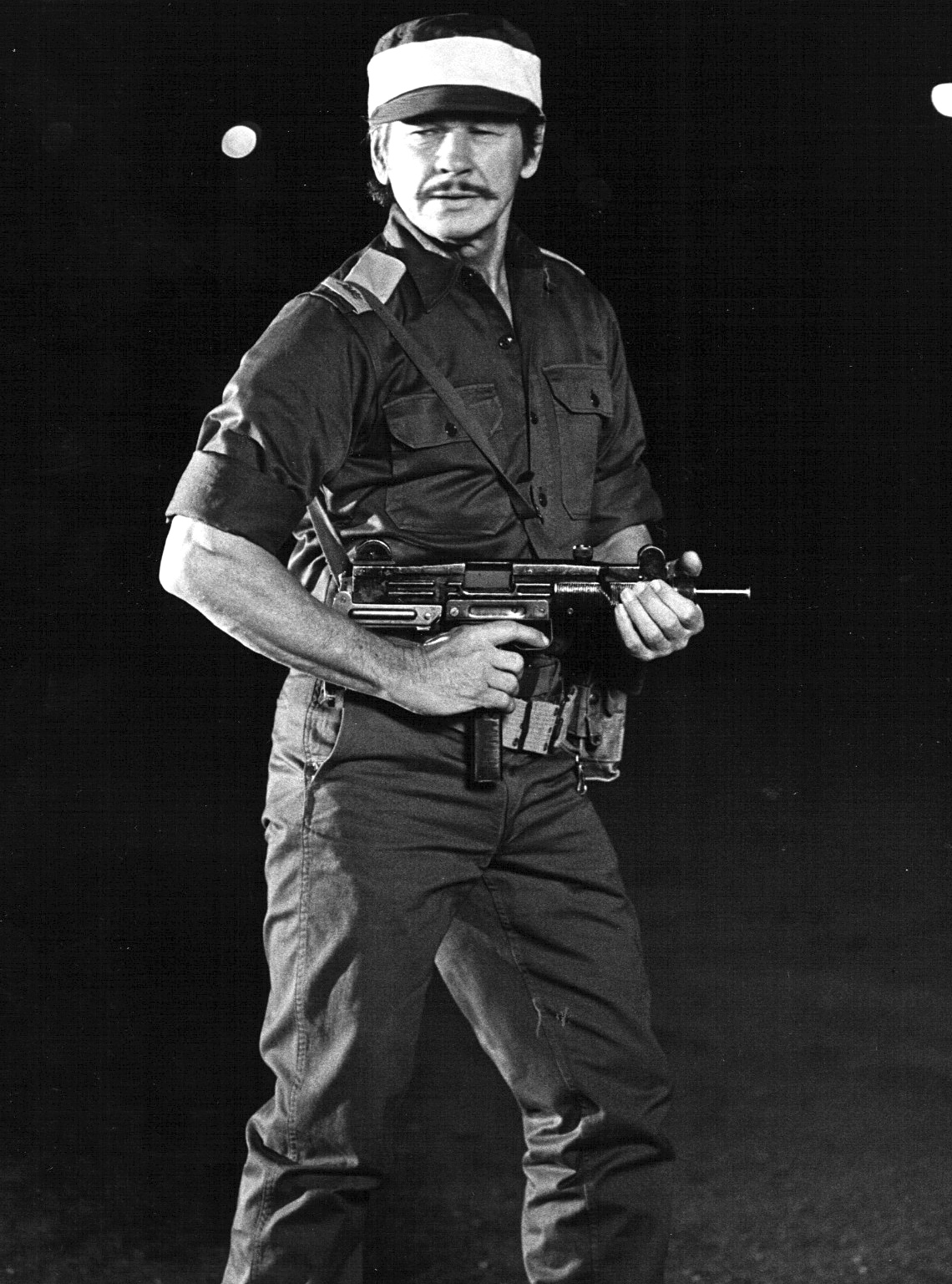 Publicity photo of Charles Bronson in film, Raid on Entebbe (1977)